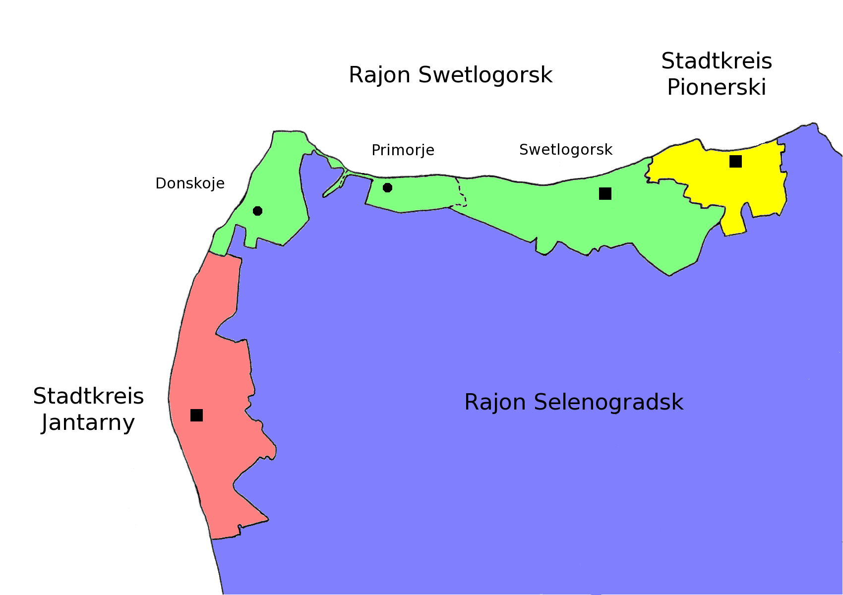 The administrational division (by the law from the year 2010 with the changes of 2015) in the northwestern part of the peninsula Sambia in the Kaliningrad Oblast of the Russian Federation